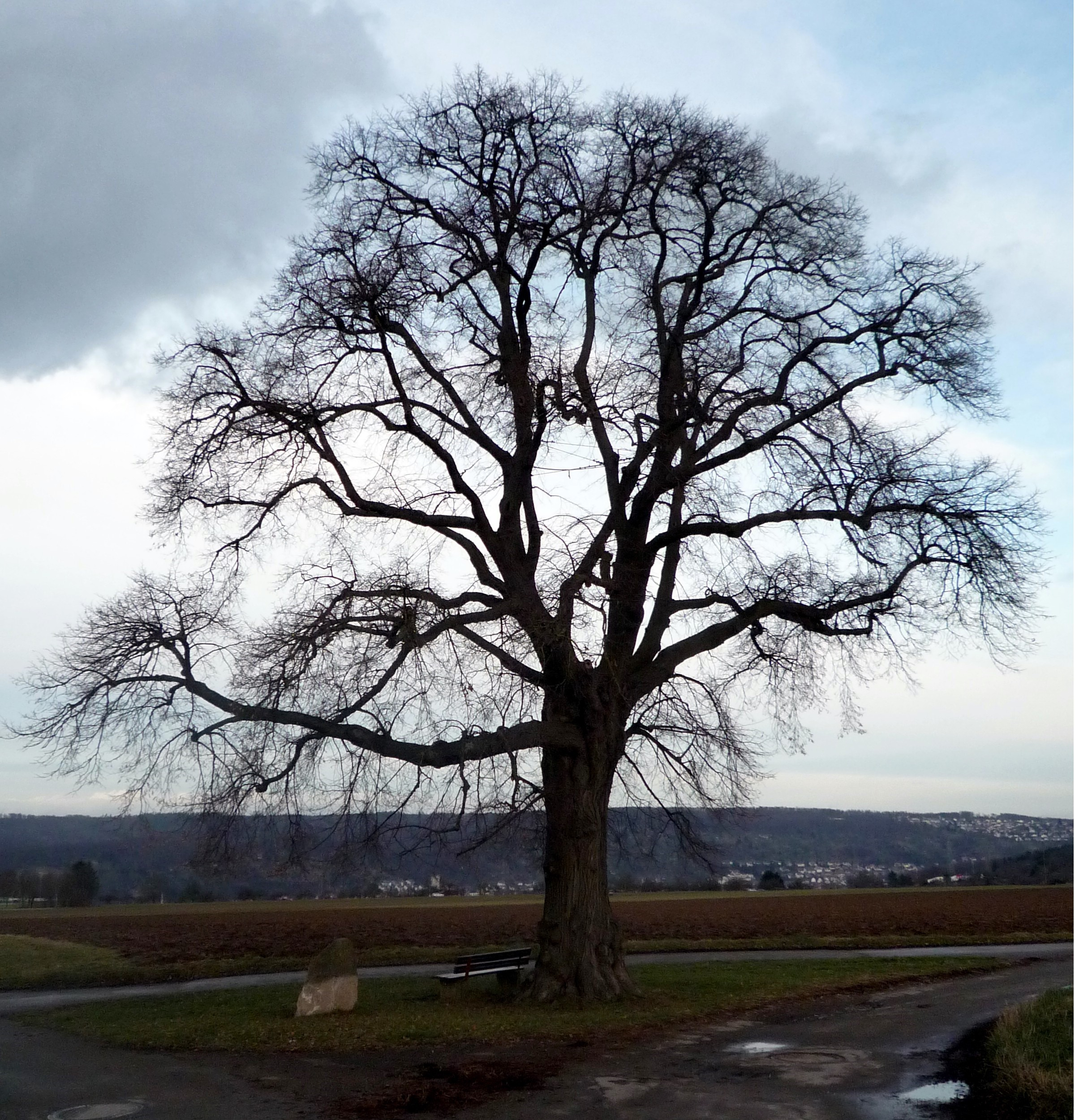 Lime-tree planted as hunger memorial in 1833 (Deizisau, Baden-Württemberg, Germany)